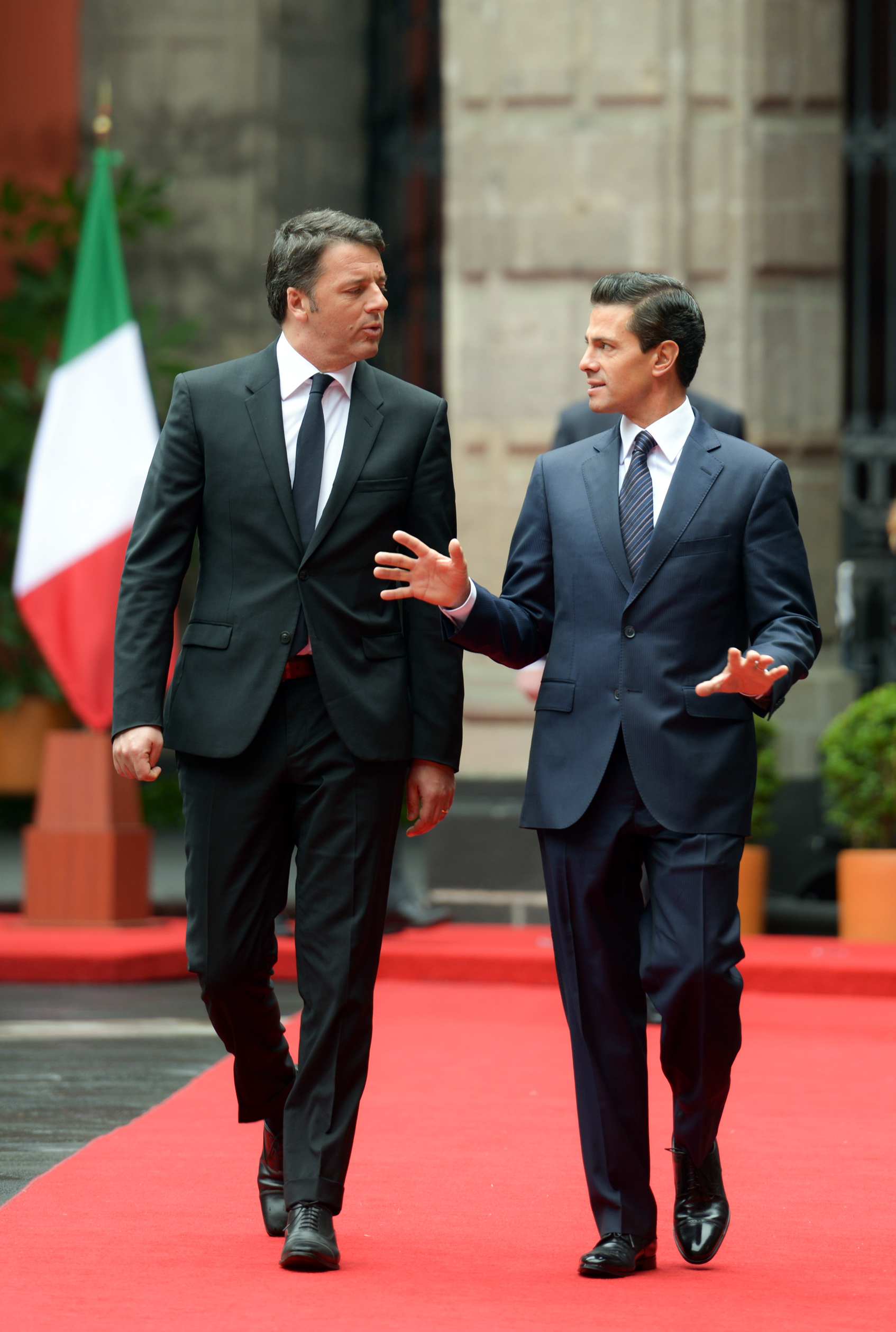 Matteo Renzi with Enrique Peña Nieto in 2016